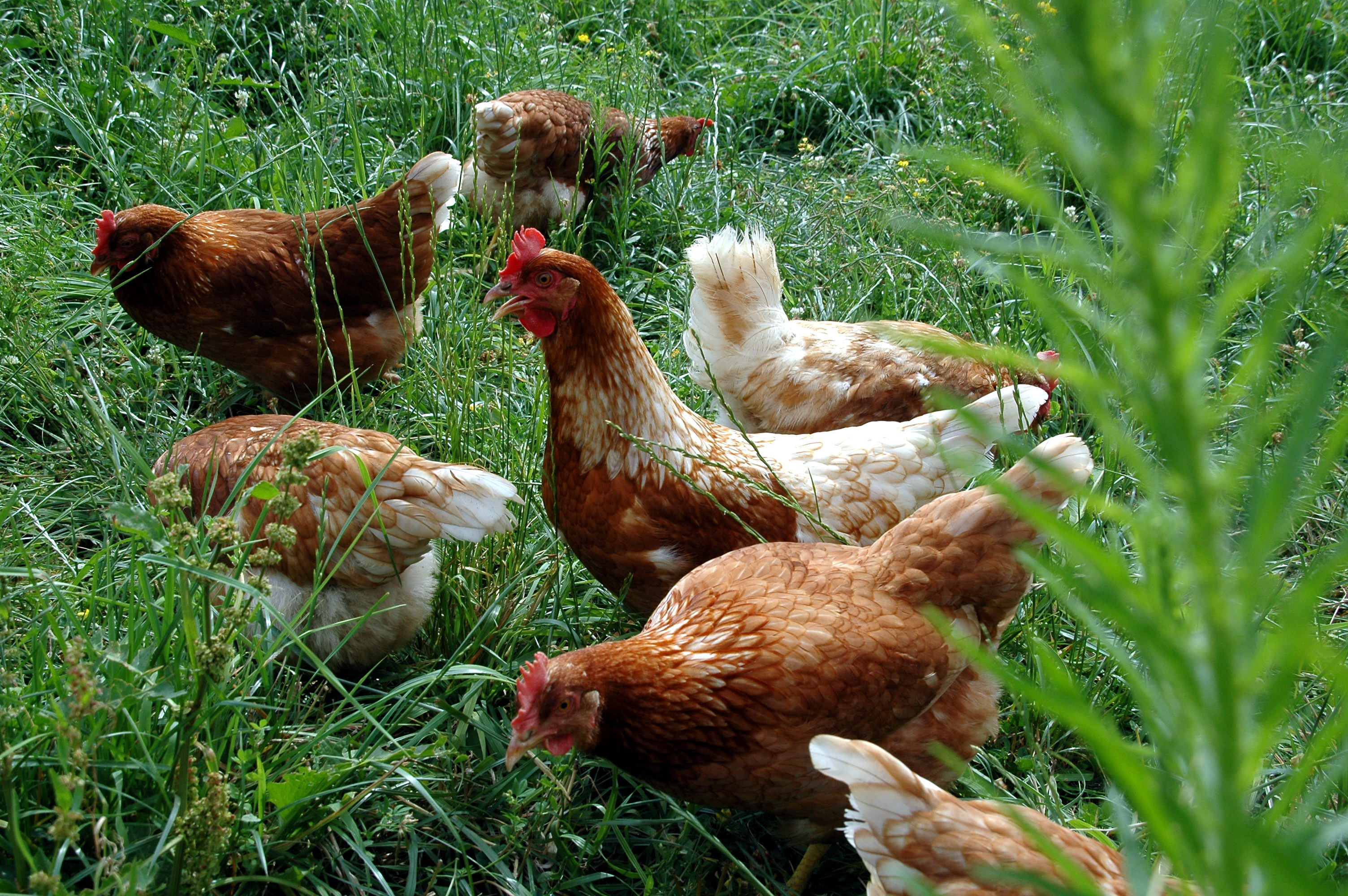 Chicken farm of manor Landskron at Gratschach, Villach, Carinthia, Austria